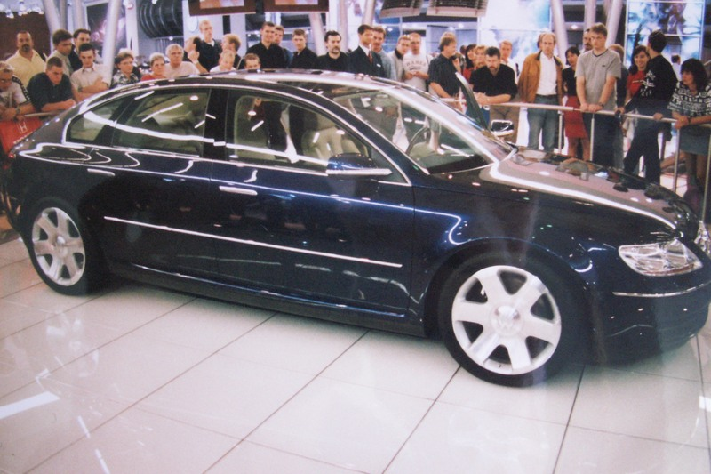 Source: photographed by myself, IAA September 1999 Photographer: Späth Chr.